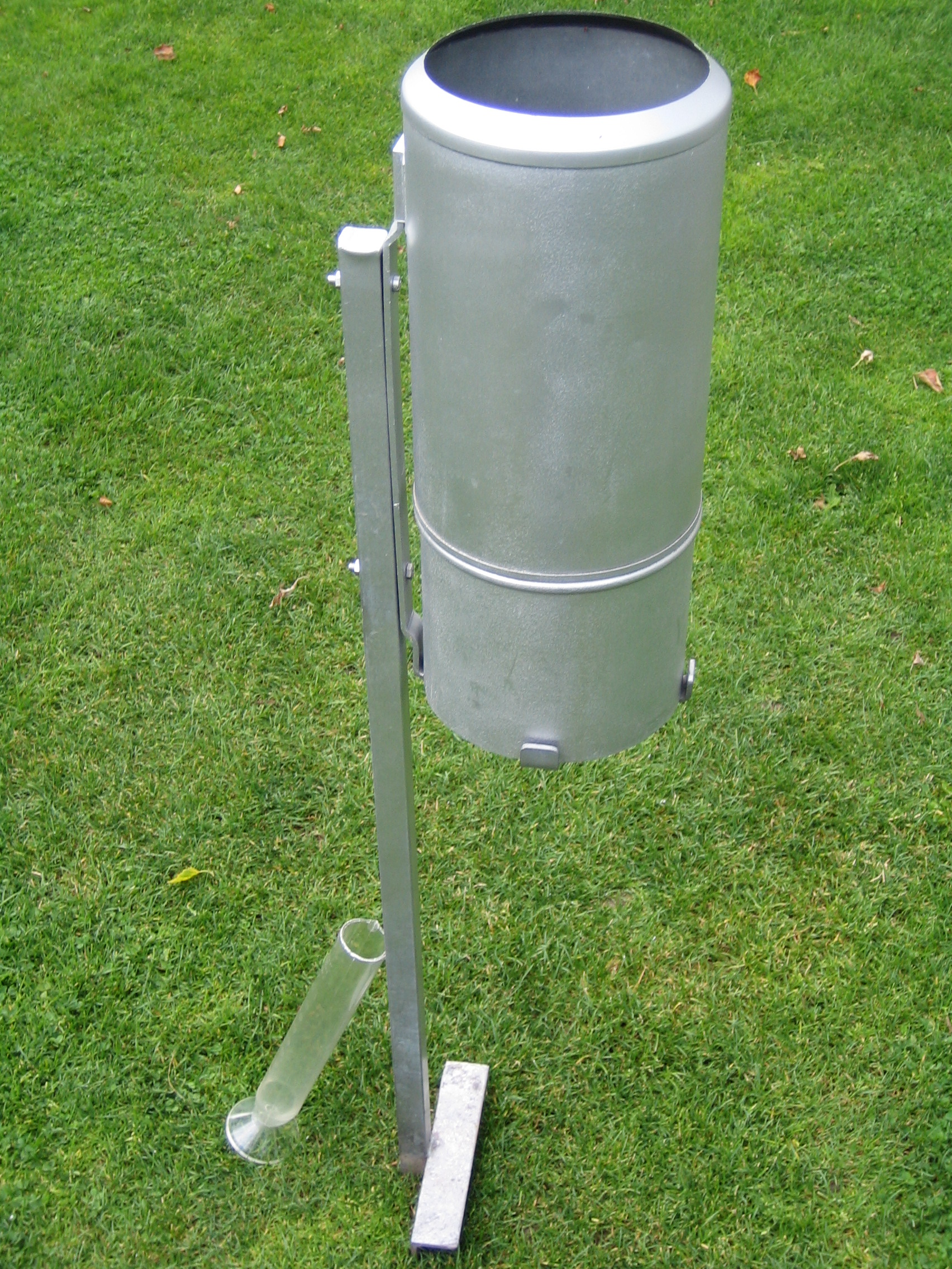 Rain Gauge according to Hellmann, 200 cm²